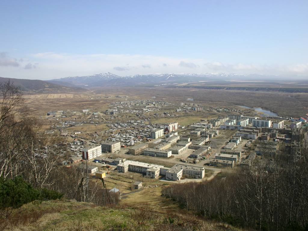 Urban-type settlement of Palana, an administrative center of Koryak Okrug, Kamchatka Krai, Russia